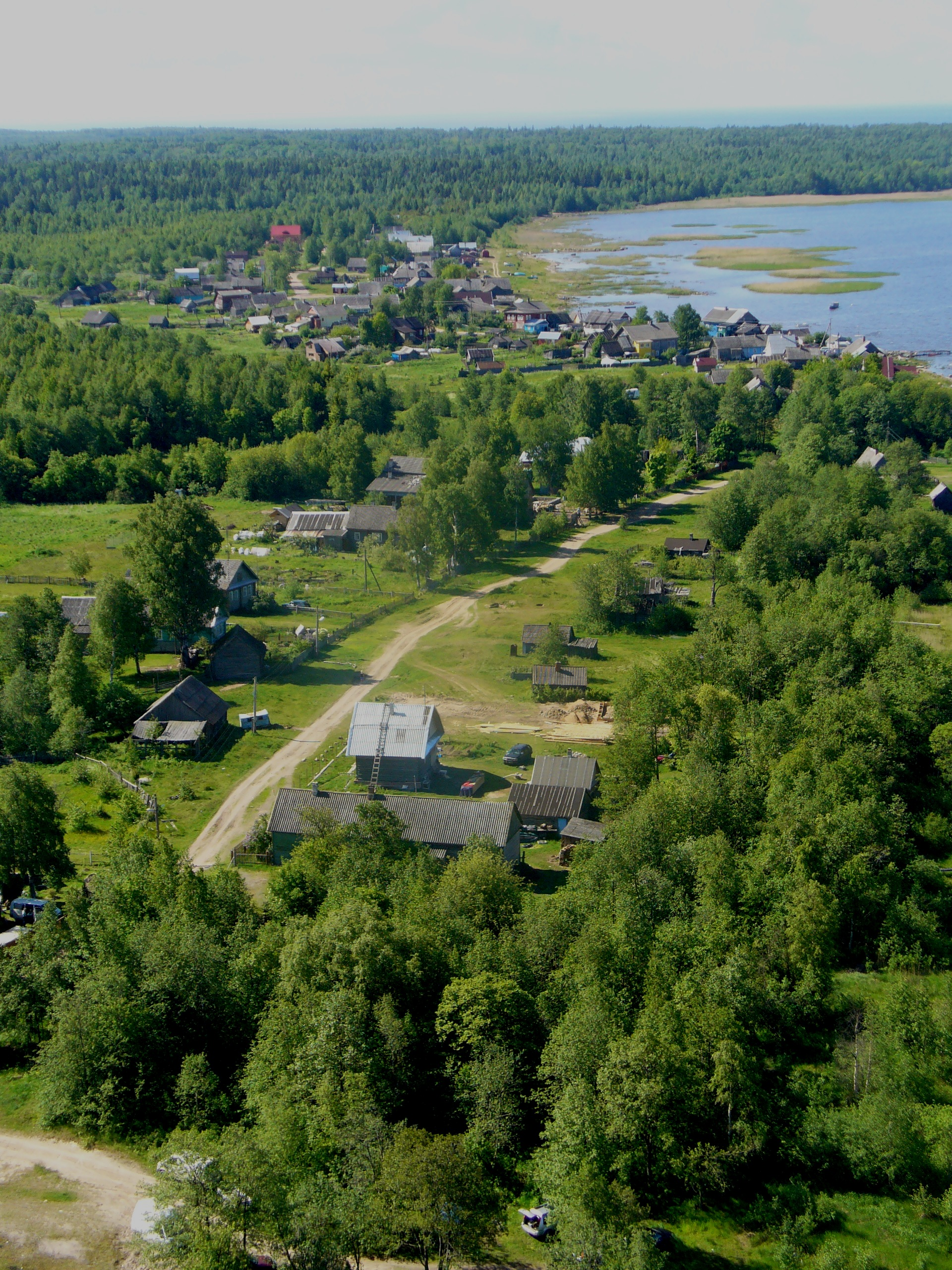 View of Storozhno village, Leningrad oblast, Russia from local lighthouse